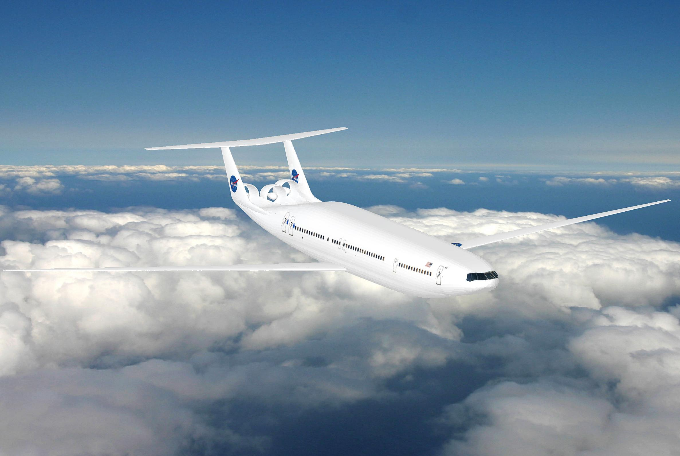 The "double bubble" D8 Series future aircraft design concept comes from the research team led by the Massachusetts Institute of Technology. Based on a modified tube and wing with a very wide fuselage to provide extra lift, its low sweep wing reduces drag and weight; the embedded engines sit aft of the wings. The D8 series aircraft would be used for domestic flights and is designed to fly at Mach 0.74 carrying 180 passengers 3,000 nautical miles in a coach cabin roomier than that of a Boeing 737-800. The D8 is among the designs presented in April 2010 to the NASA Aeronautics Research Mission Directorate for its NASA Research Announcement-funded studies into advanced aircraft that could enter service in the 2030-2035 timeframe.